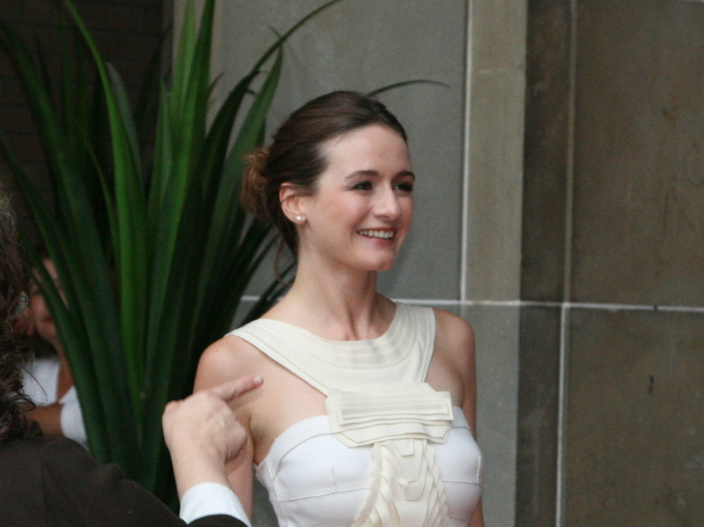 Actress, Emily Mortimer at the TIFF premiere of The Girl in the Park